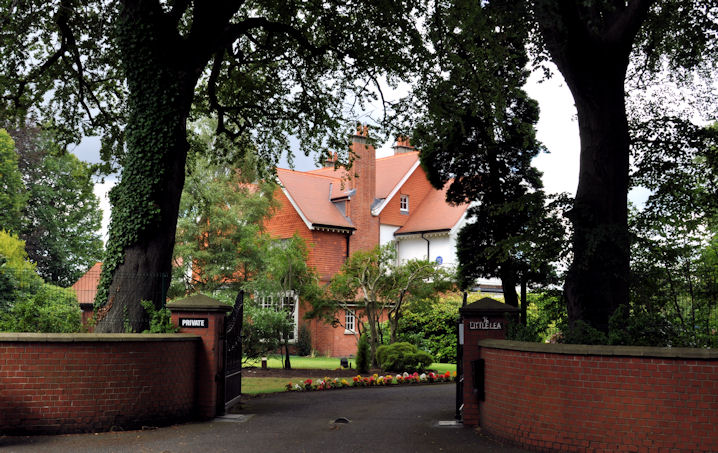 A large, early 20th century, house on the Circular Road, best known as the childhood home of CS Lewis.